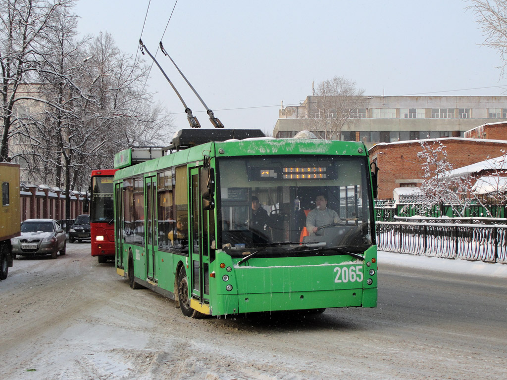 Trolleybus Trolza-5265